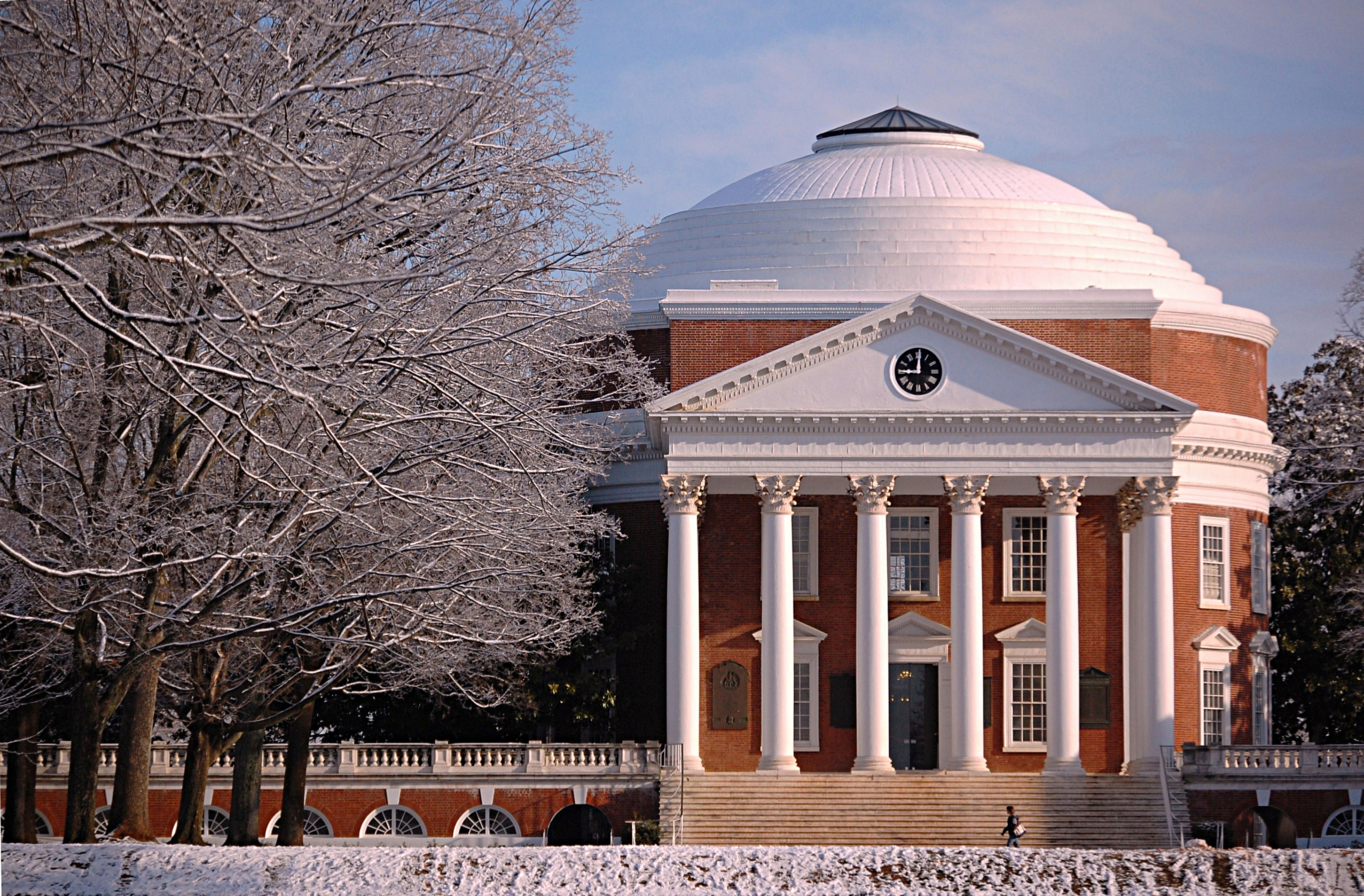 Thomas Jefferson's Rotunda at the University of Virginia. This collegiate structure and those surrounding it are protected with international funds as a World Heritage Site by UNESCO, the education and science body of the United Nations.